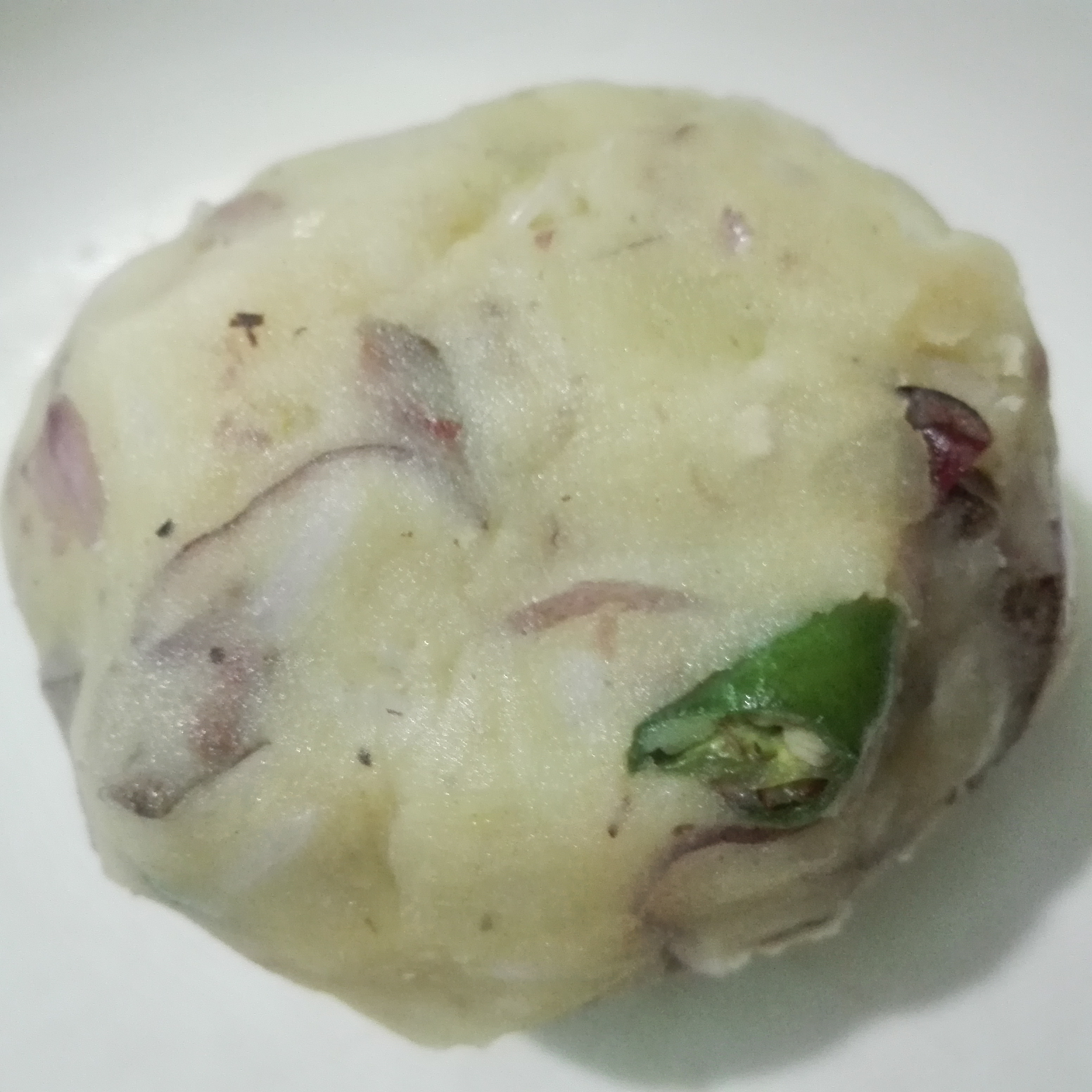 Bangladeshi style meshed potato which is known as alu bharta